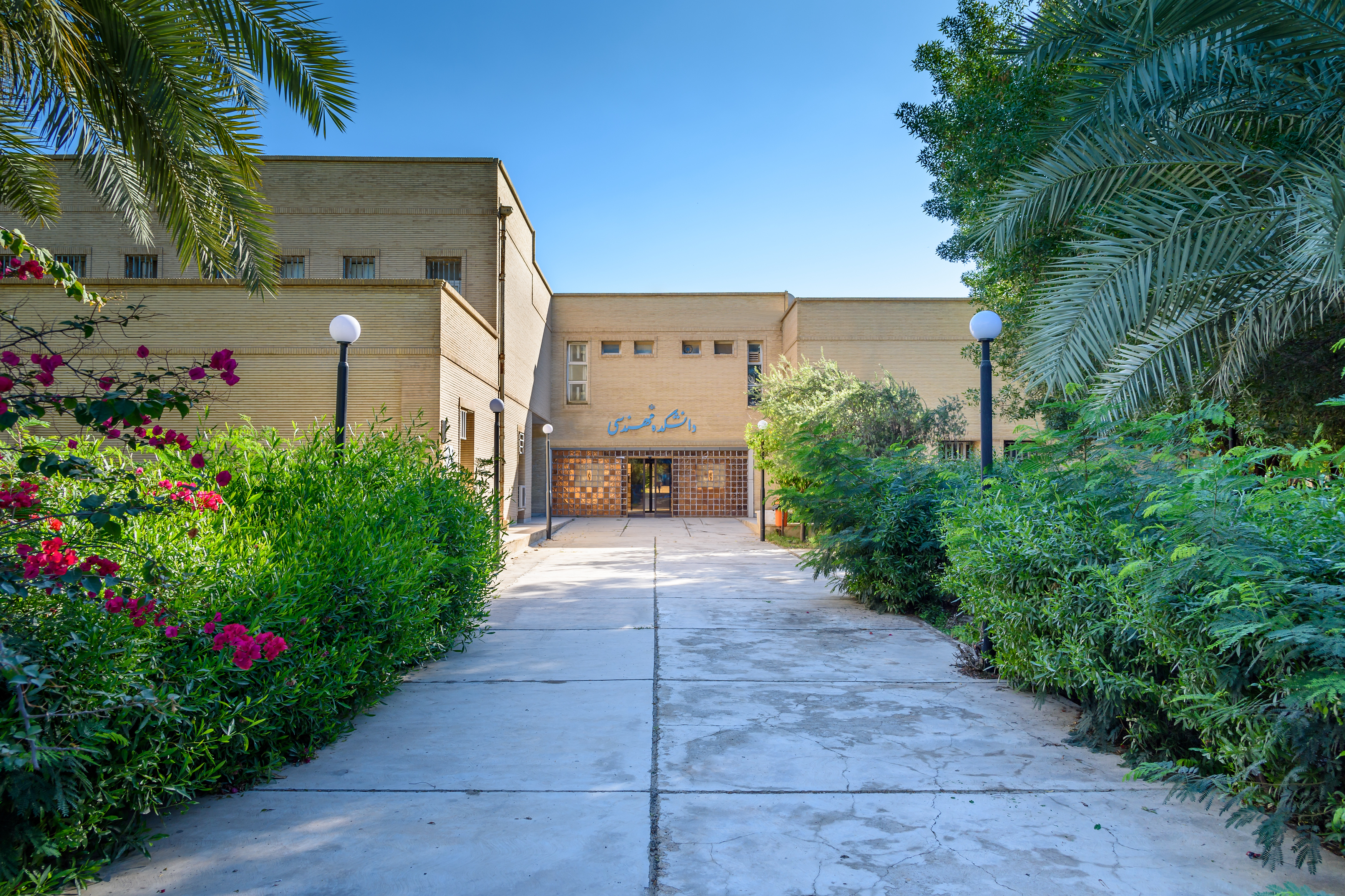 Main entry of Faculty of Engineering Persian gulf university